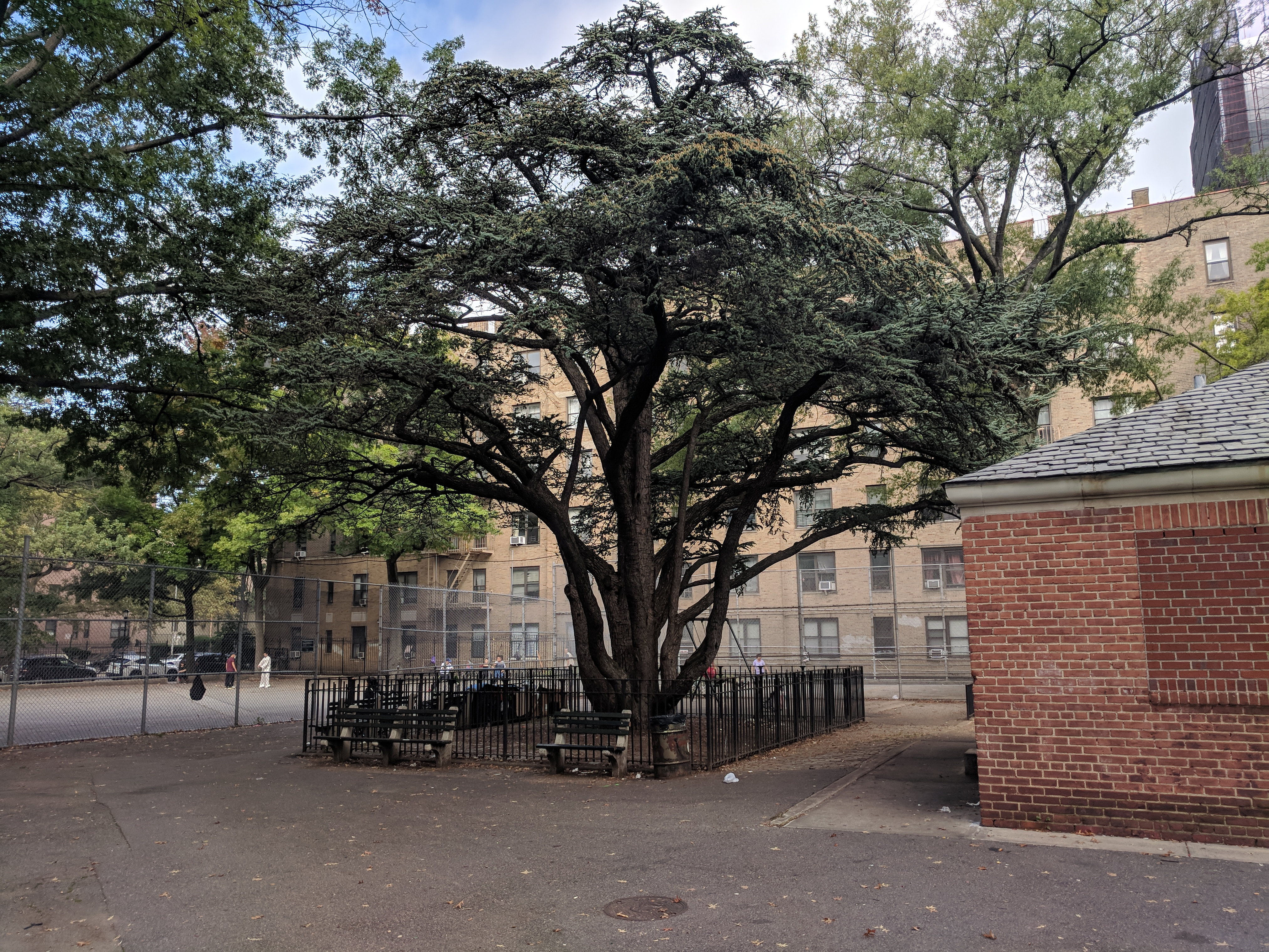 Ceder of Lebanon in playground in front of mens room, NYC Parks dept